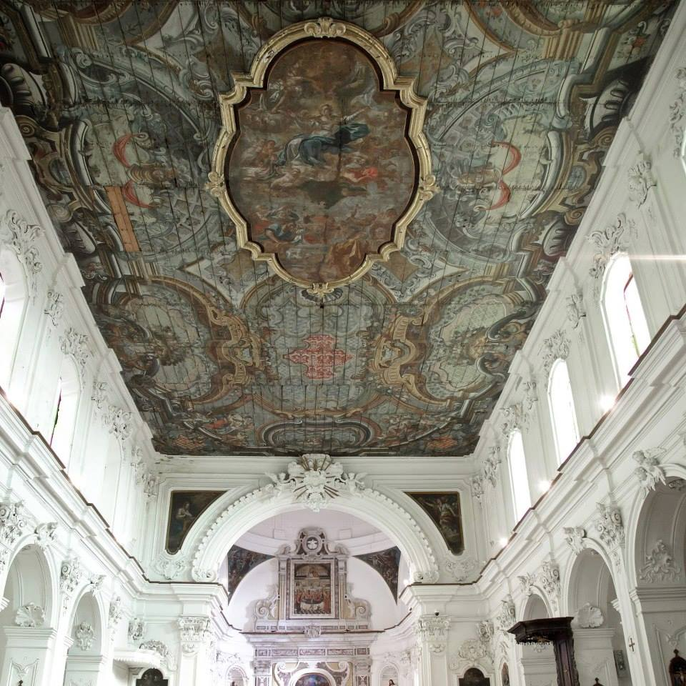 Interno della chiesa dell'Assunta a Cropani